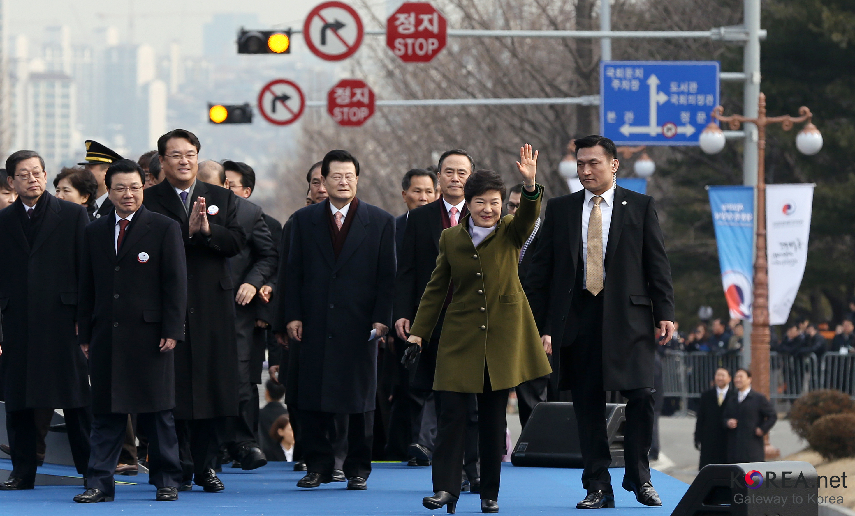 Republic of Korea The 18th Presidential Inaugural Ceremony